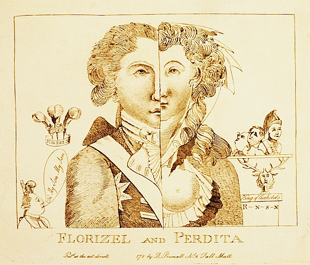 "Florizel and Perdita" (David Garrick's adaptation of Shakespeare's "The Winter's Tale"). Etching of a bust portrait divided vertically by a line down the center of the face, depicting the Prince of Wales, later George IV of the United Kingdom (1762-1830), as Florizel, and his mistress Mary Robinson (1758-1800) as Perdita. Caption on the left: "Oh! my son, my son" (said by George III). Caption on the right: "King of cuckolds".